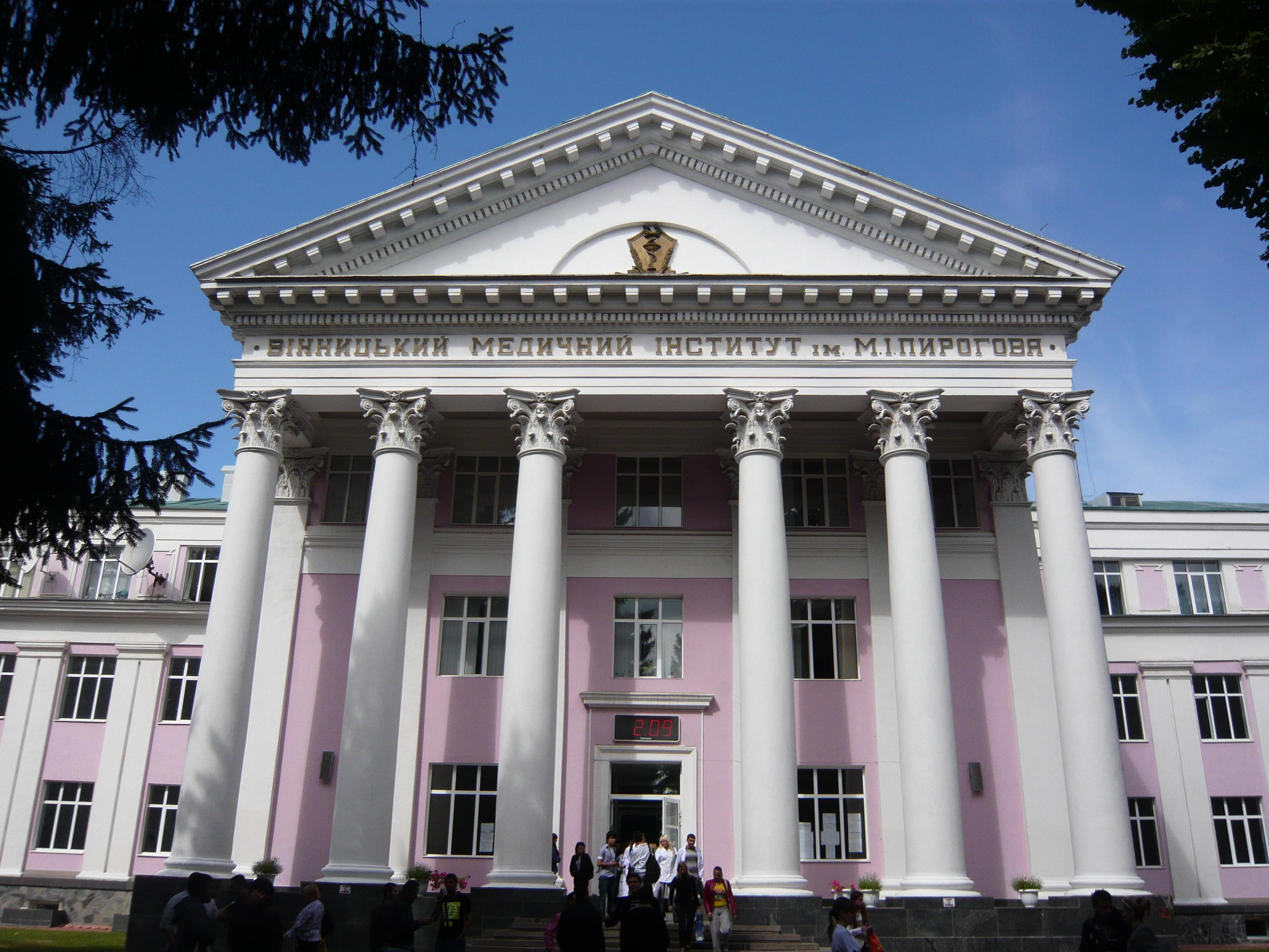 Main building of the Vinnytsia National Medical University (Pirogov University), 56 Street Pirogova, Vinnytsia, Ukraine 21018